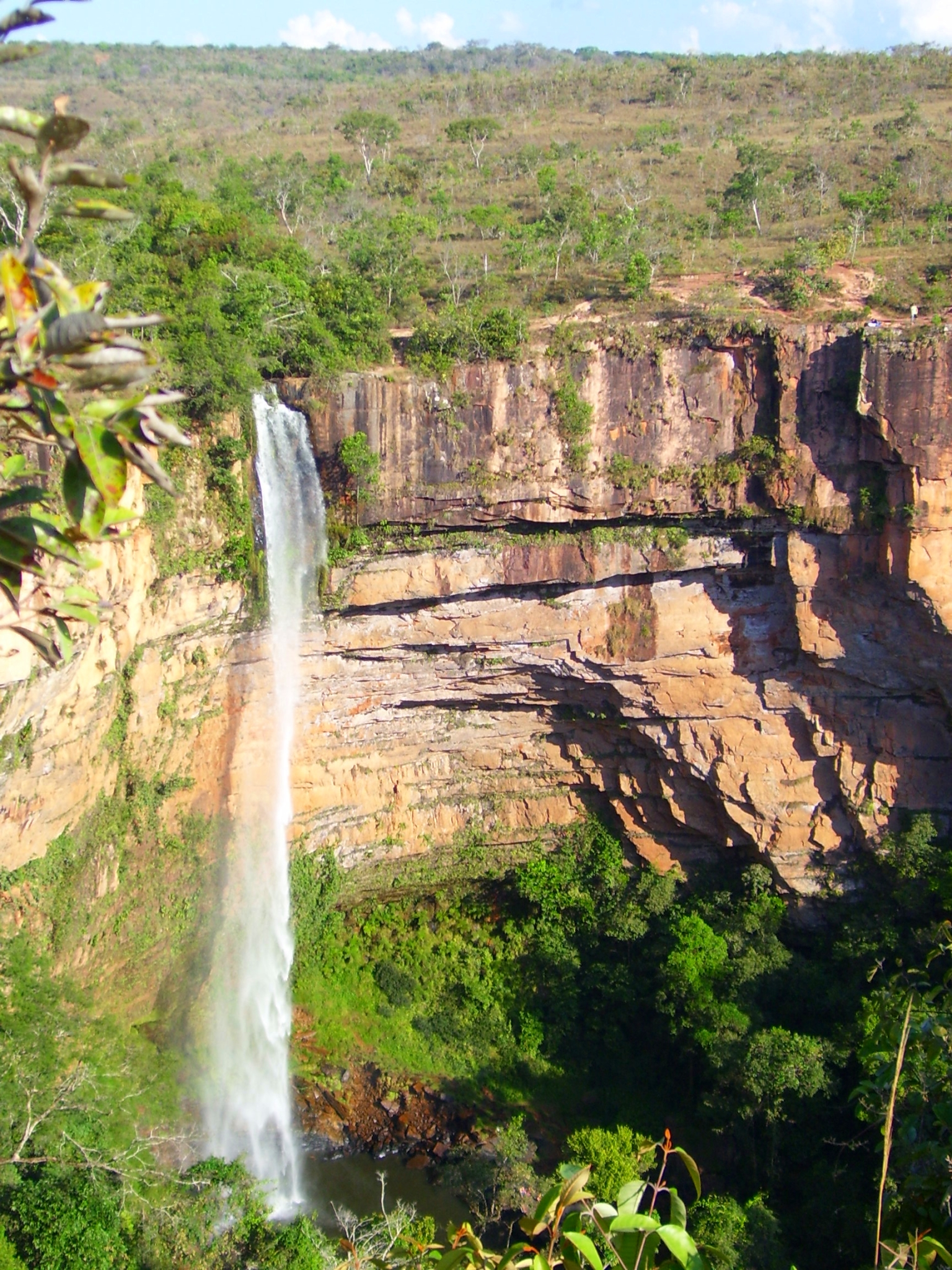 "Véu de Noiva" Waterfall, in Chapada dos Guimarães National Park, Chapada dos Guimarães, Mato Grosso, Brazil.